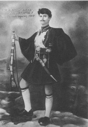 Lakis Dailakis as Macedonian fighter